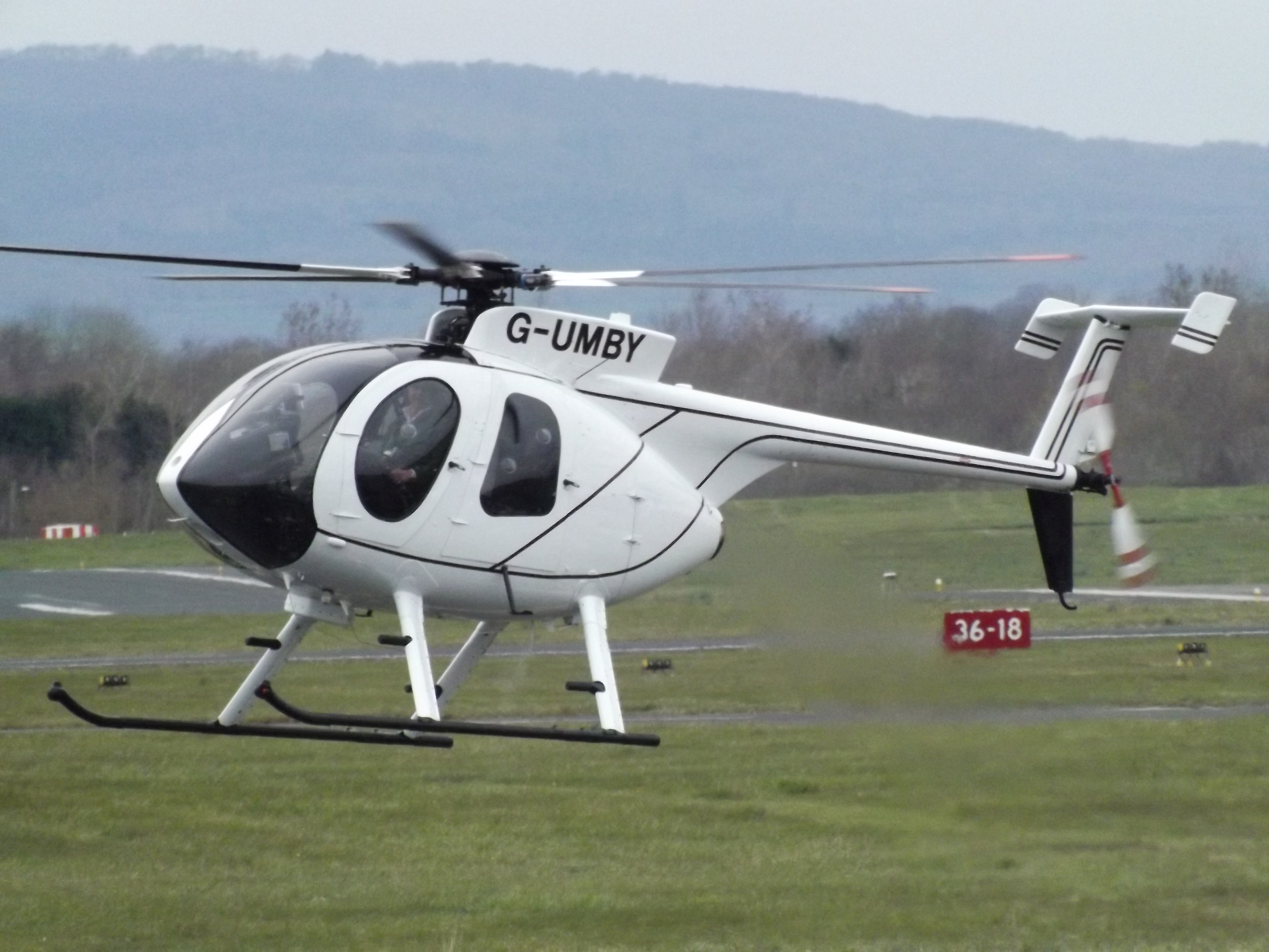 At Gloucestershire Airport.